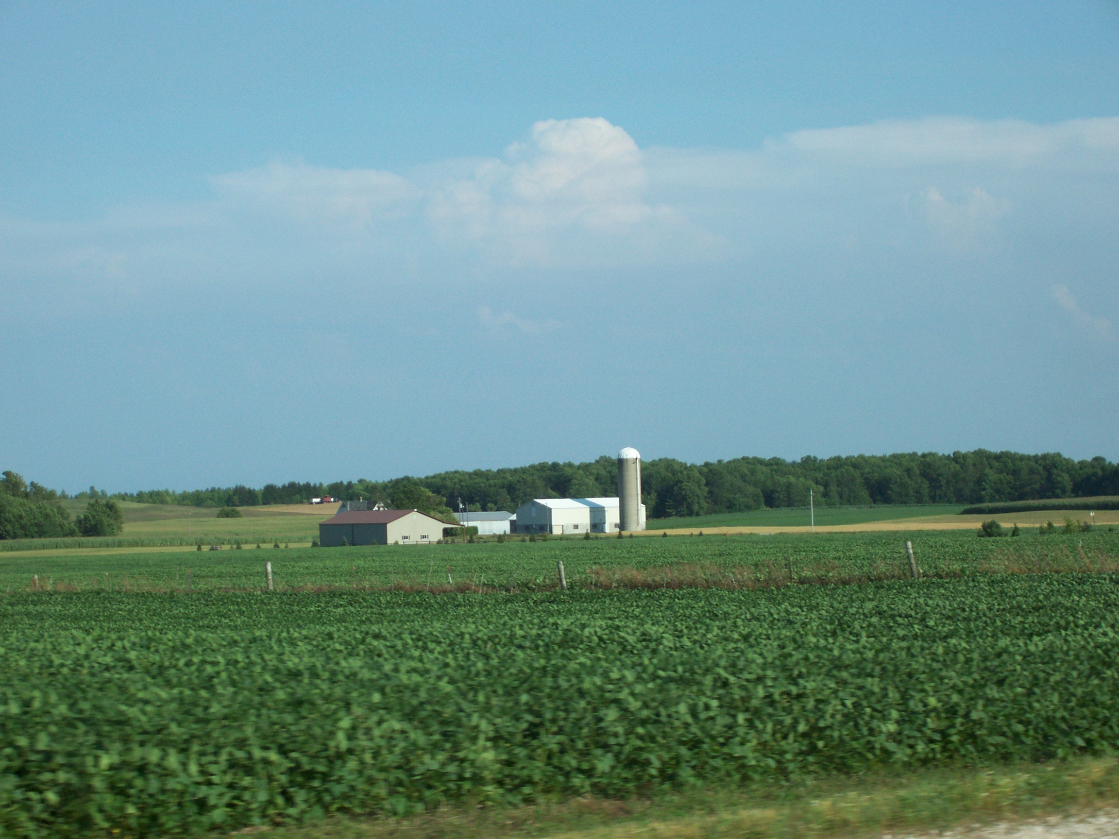 Typical farmland and a farm in northern Kewaunee County, Wisconsin, USA on Wisconsin Highway 42 on the east side of the road. A soybean crop is visible in the foreground.